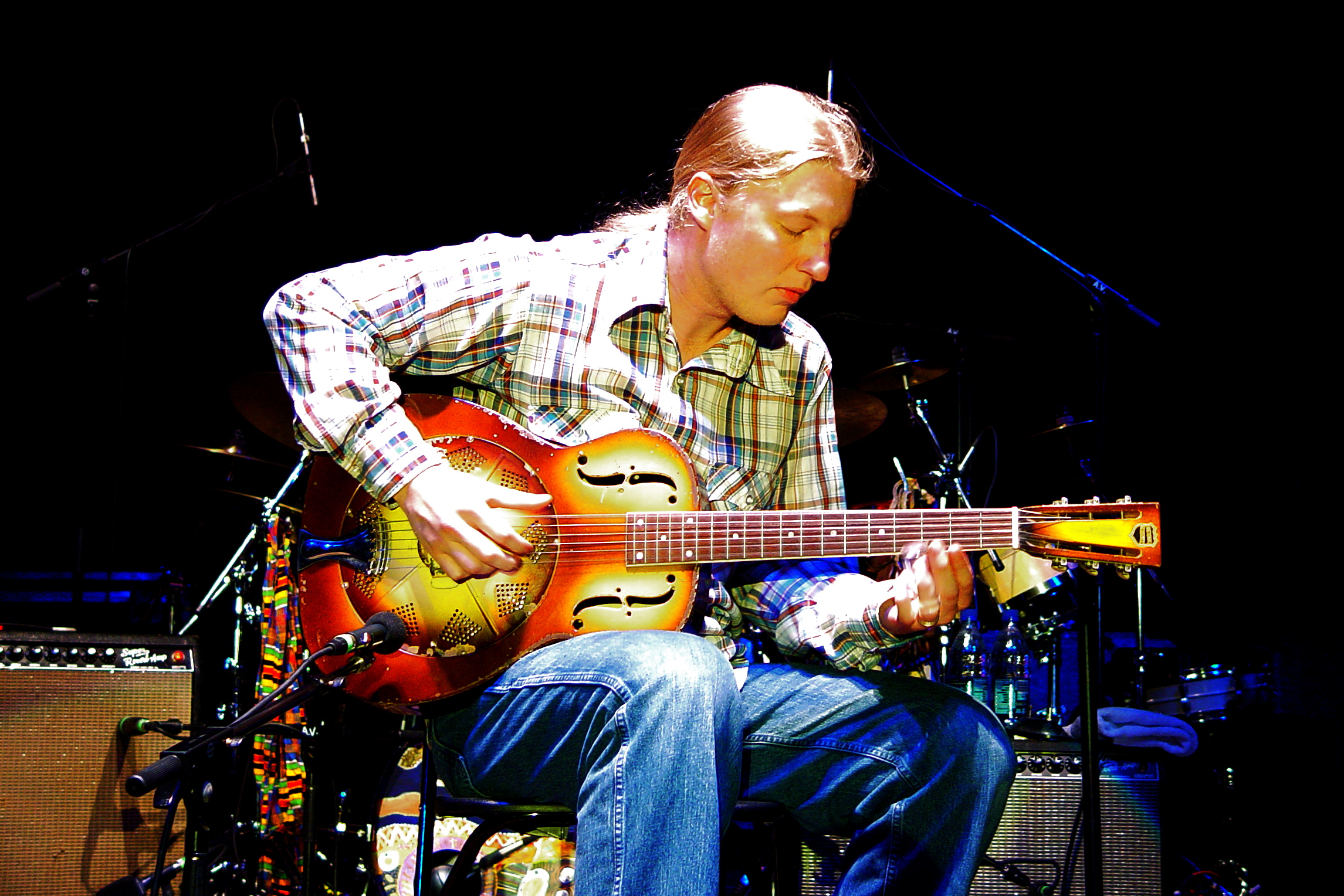 Derek Trucks